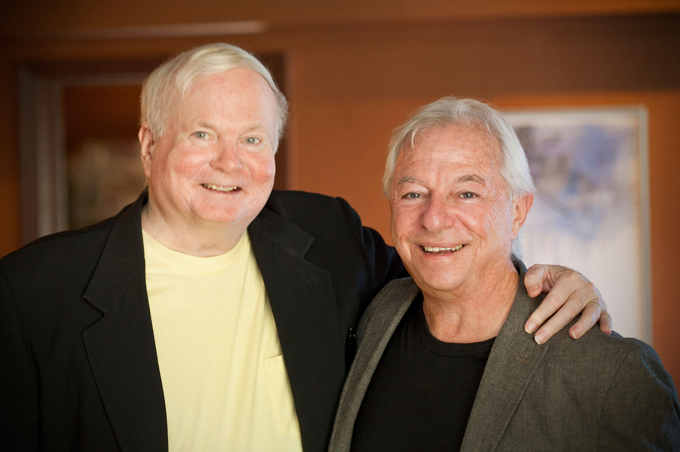 Photo of Pat Conroy and Tom Poland (left to right)